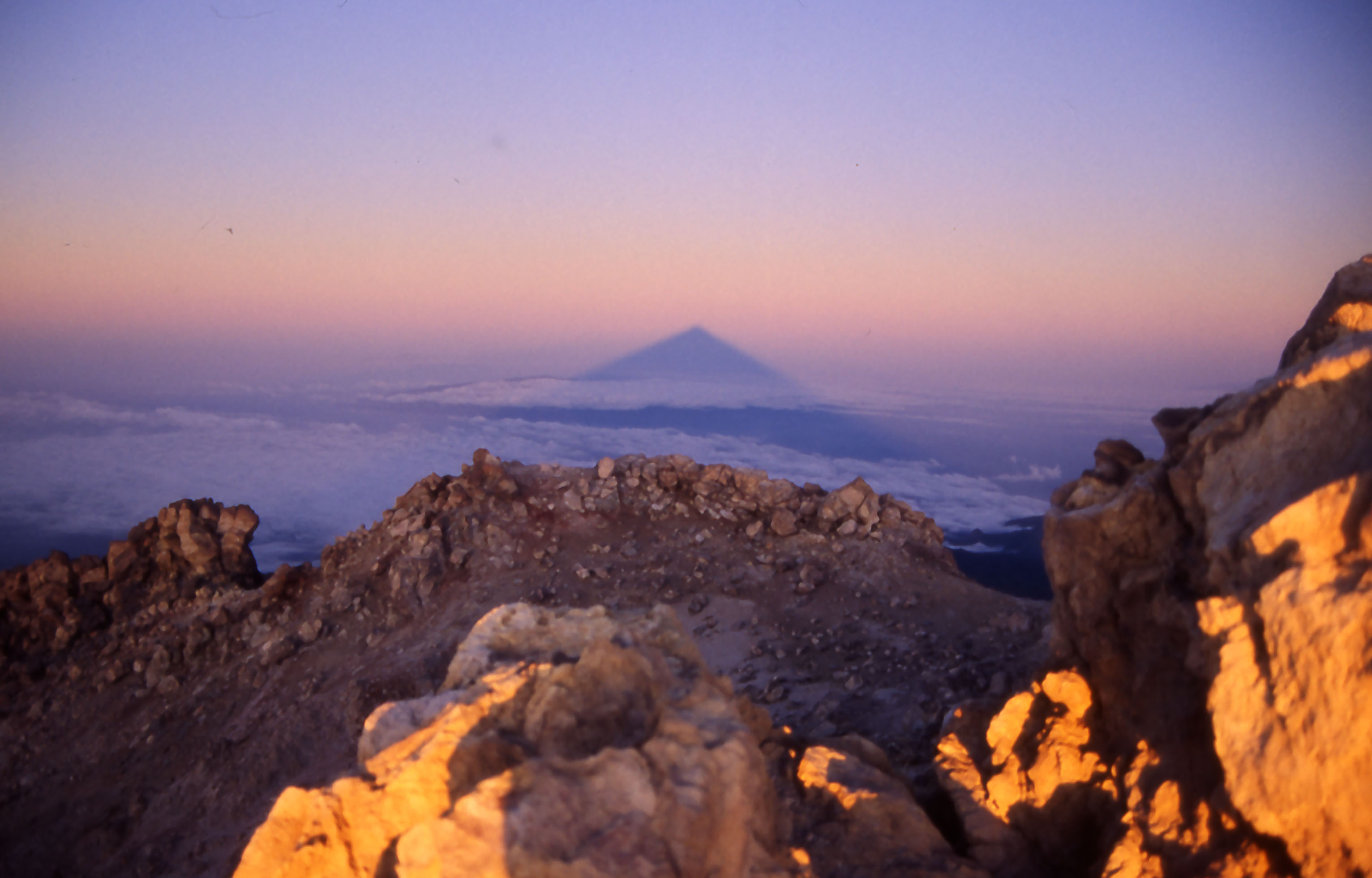 Sunrise on top of Pico de Teide